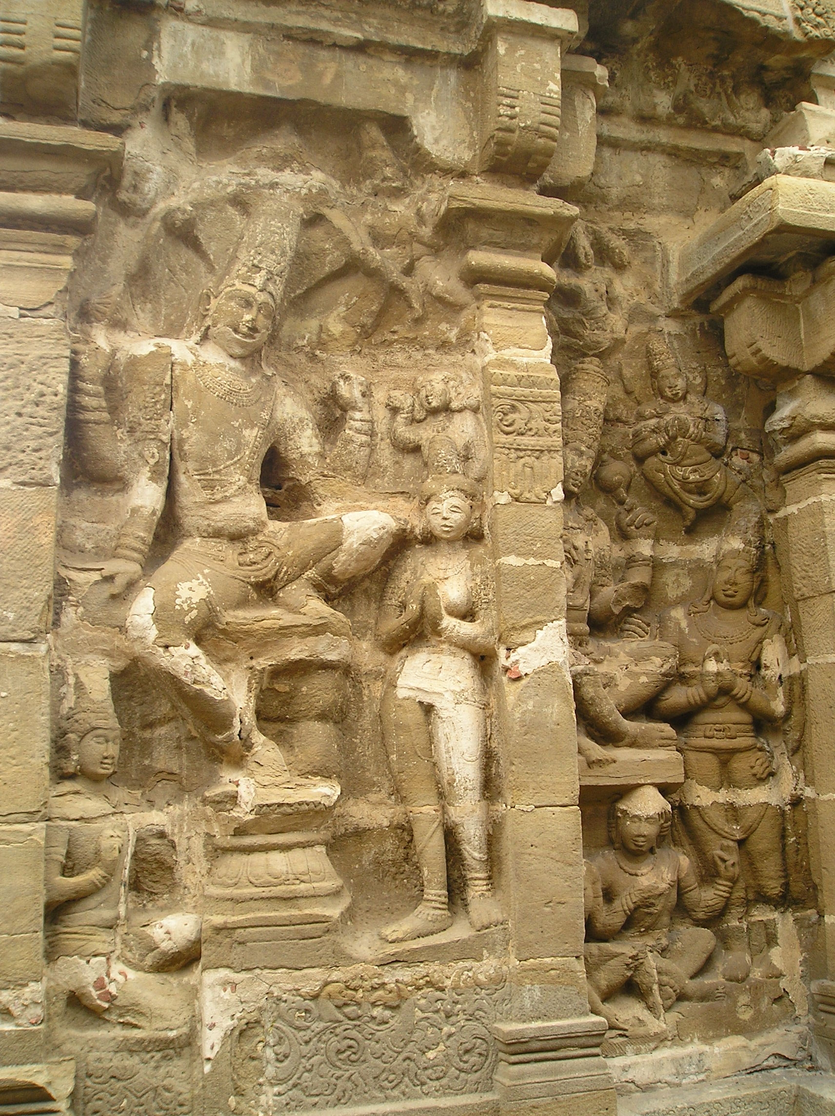 Parameshwara Vinnagaram